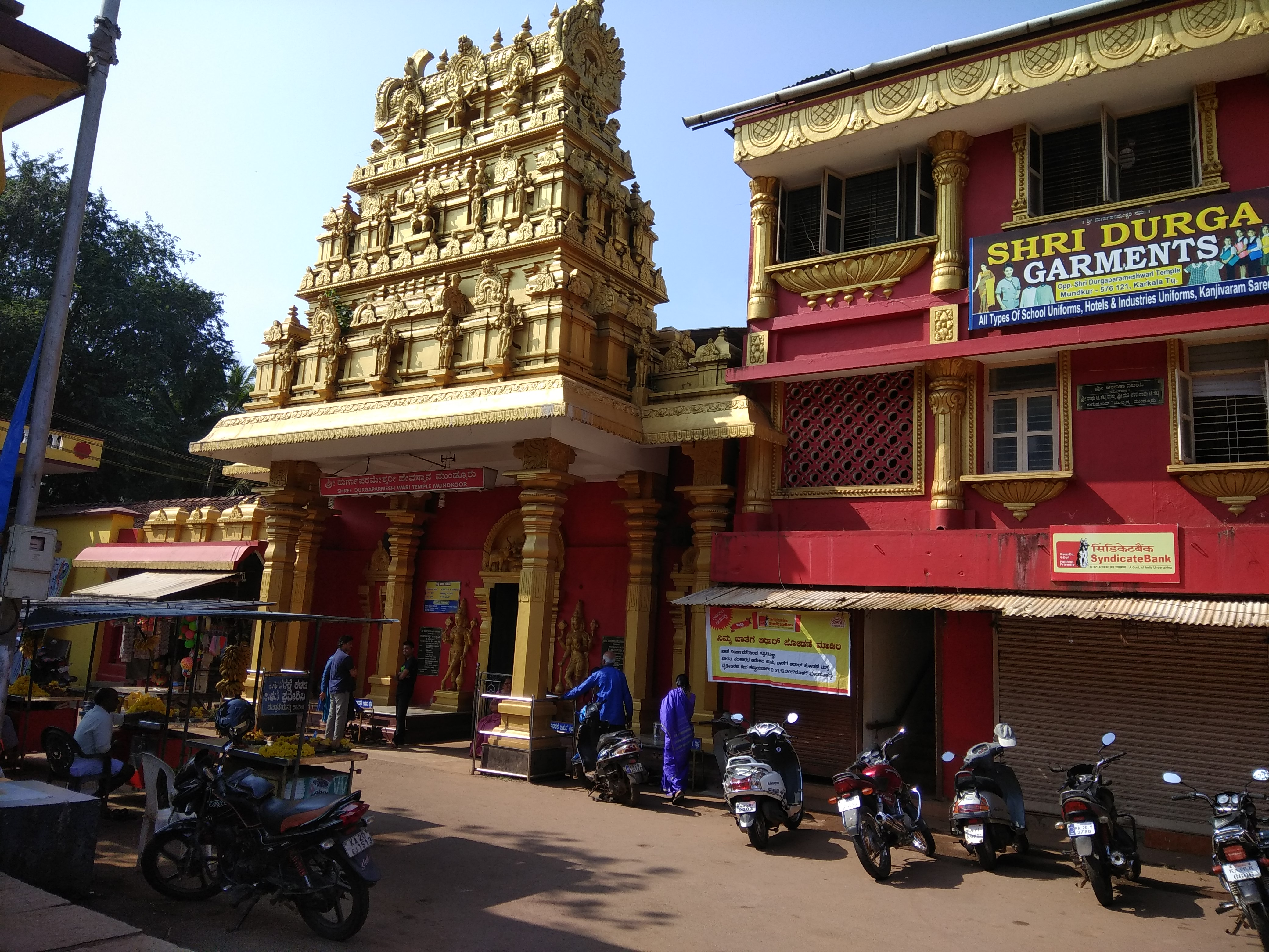 Mundkur. Shri Durga Parameshwari Temple, Mundkur, Udupi district, Karnataka, India ಕನ್ನಡ: ಮುಂಡ್ಕೂರು, ಶ್ರೀ ದುರ್ಗಾ ಪರಮೇಶ್ವರಿ ದೇವಸ್ಥಾನ, ಮುಂಡ್ಕೂರು, ಉಡುಪಿ ಜಿಲ್ಲೆ, ಕರ್ನಾಟಕ, ಭಾರತ.